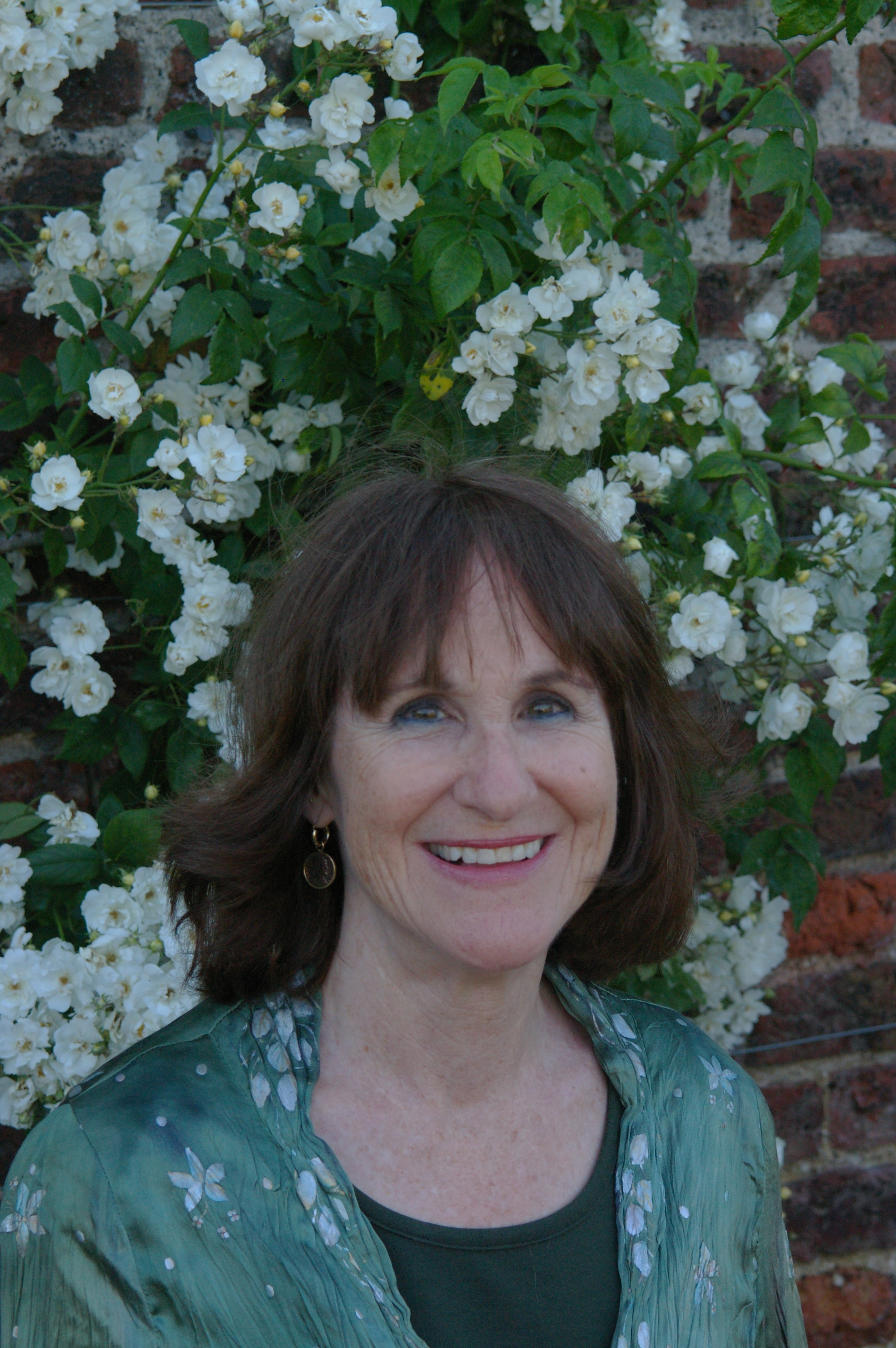 Author photo